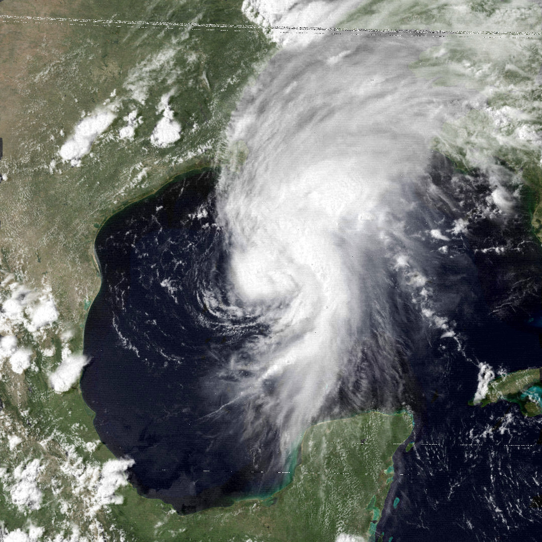 Tropical Storm Bob in the Gulf of Mexico on July 10, 1979, shortly before attaining hurricane status